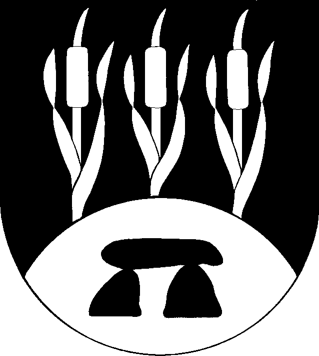 Coat of arms of the municipality Schülp bei Nortorf in Schleswig-Holstein, Germany.